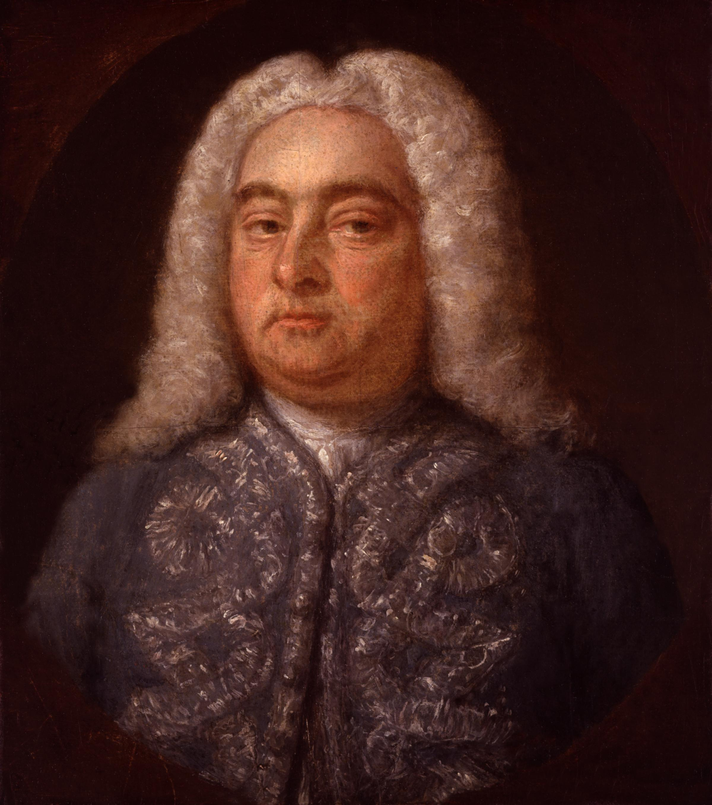 George Frideric Handel, by Francis Kyte (floruit 1710-1744). All images in this batch have a known author with unknown death date, but according to the NPG's website the author was floruit (known to be active) prior to 1859, and so is reasonably presumed dead by 1939.